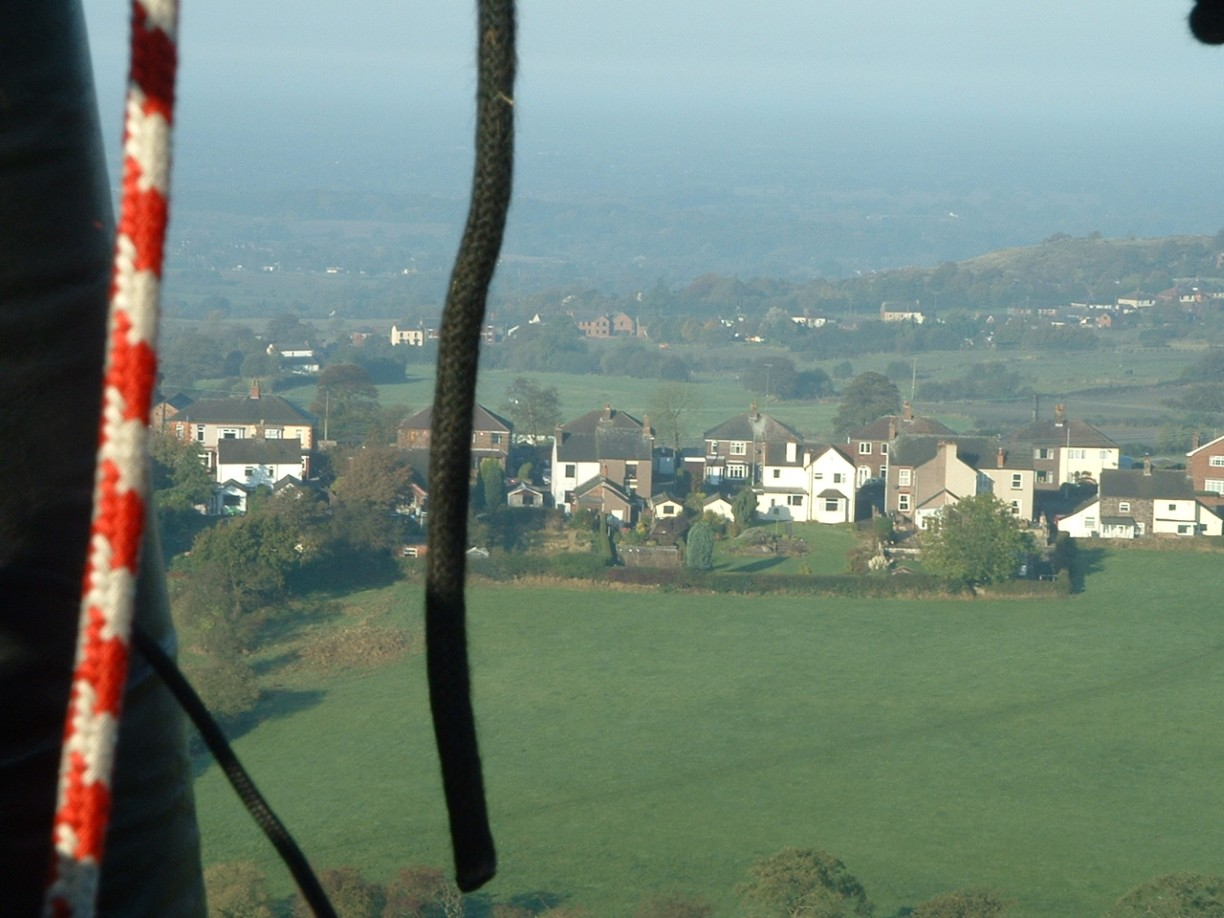 High Street Harriseahead